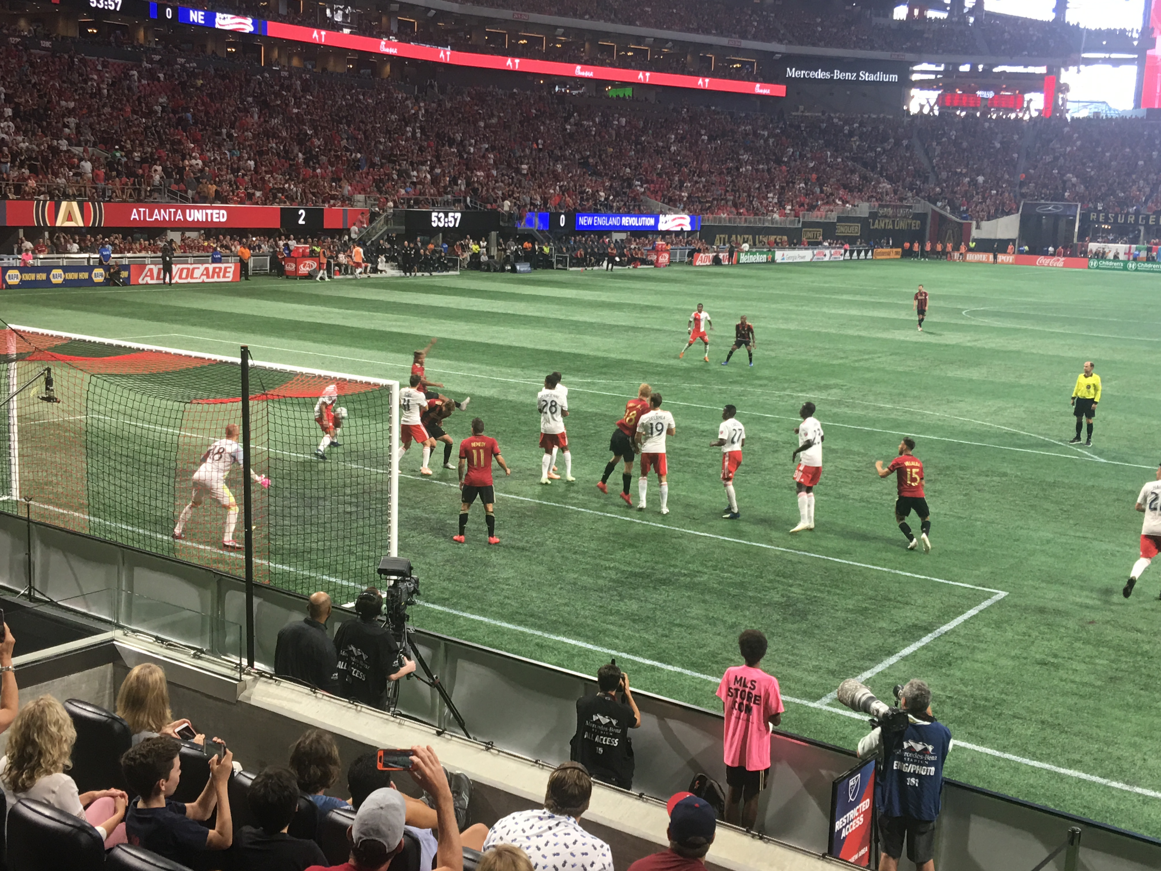 2018-10-06 - Atlanta United vs New England Revolution